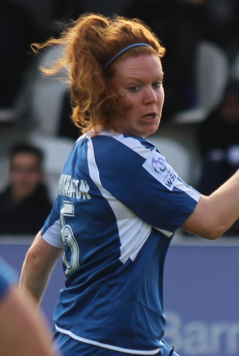 Marta Corredera of Arsenal Ladies shoots at goal during the game against Birmingham.